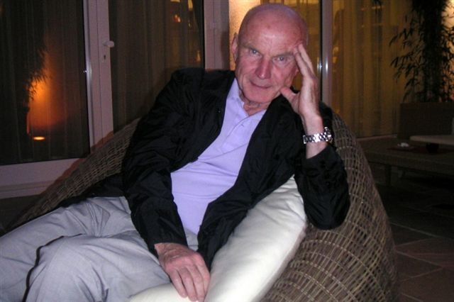 The picture shows Ivan Engler